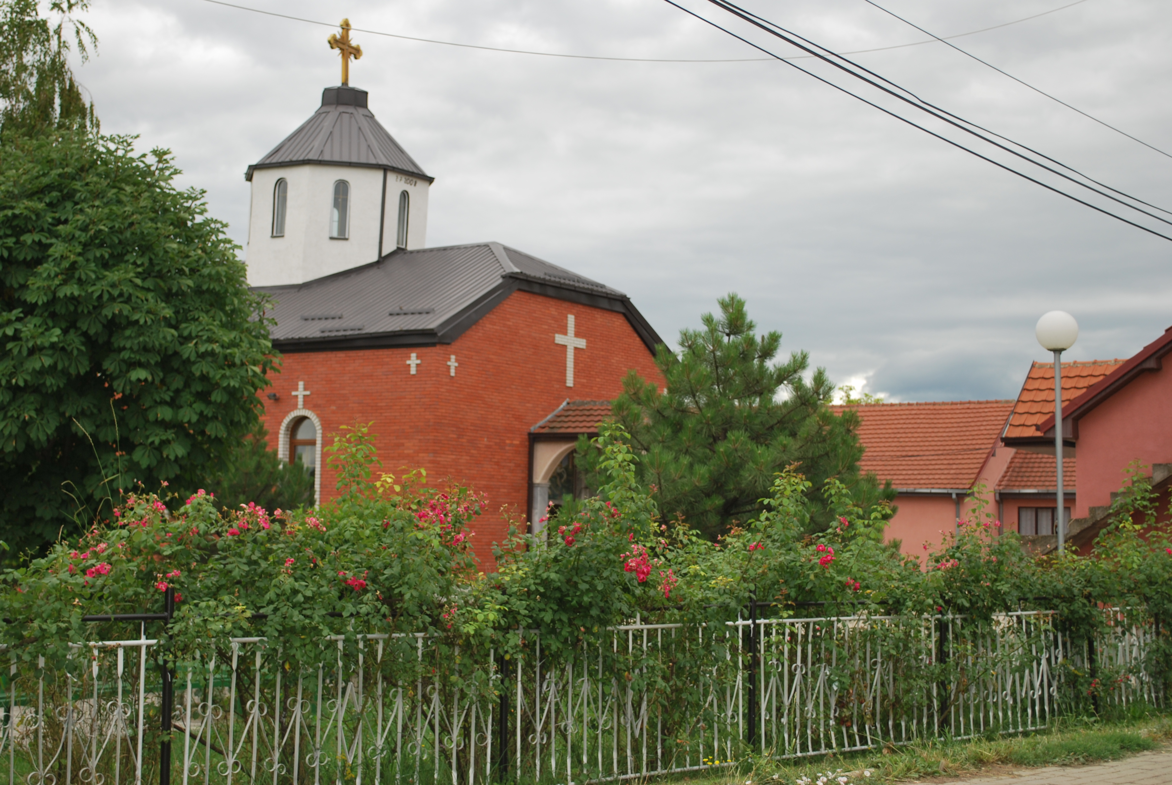 St. George's Church in Petrovec, Macedonia